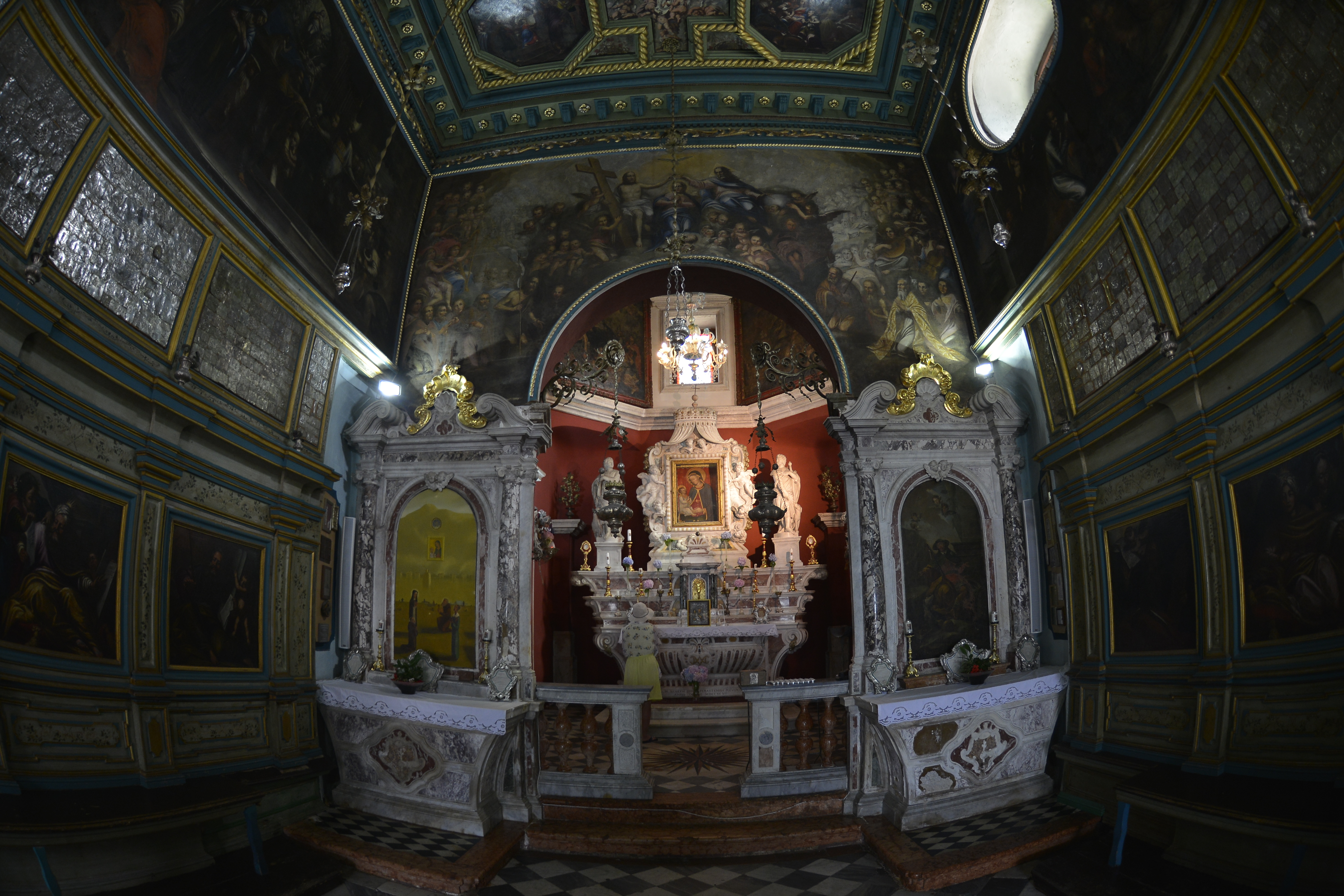 Church Our Lady of the Rocks